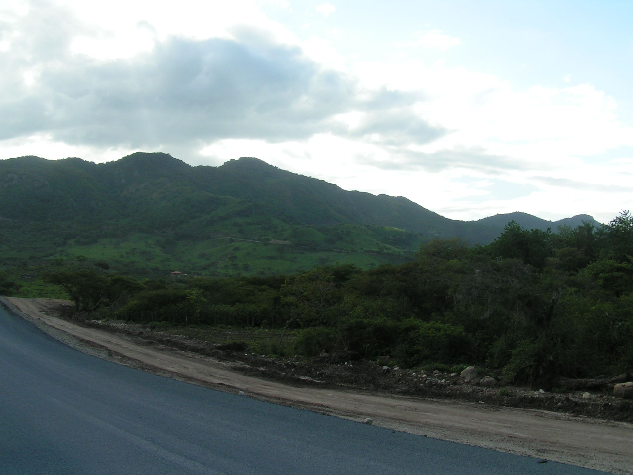 New Sebaco-Jinotega road